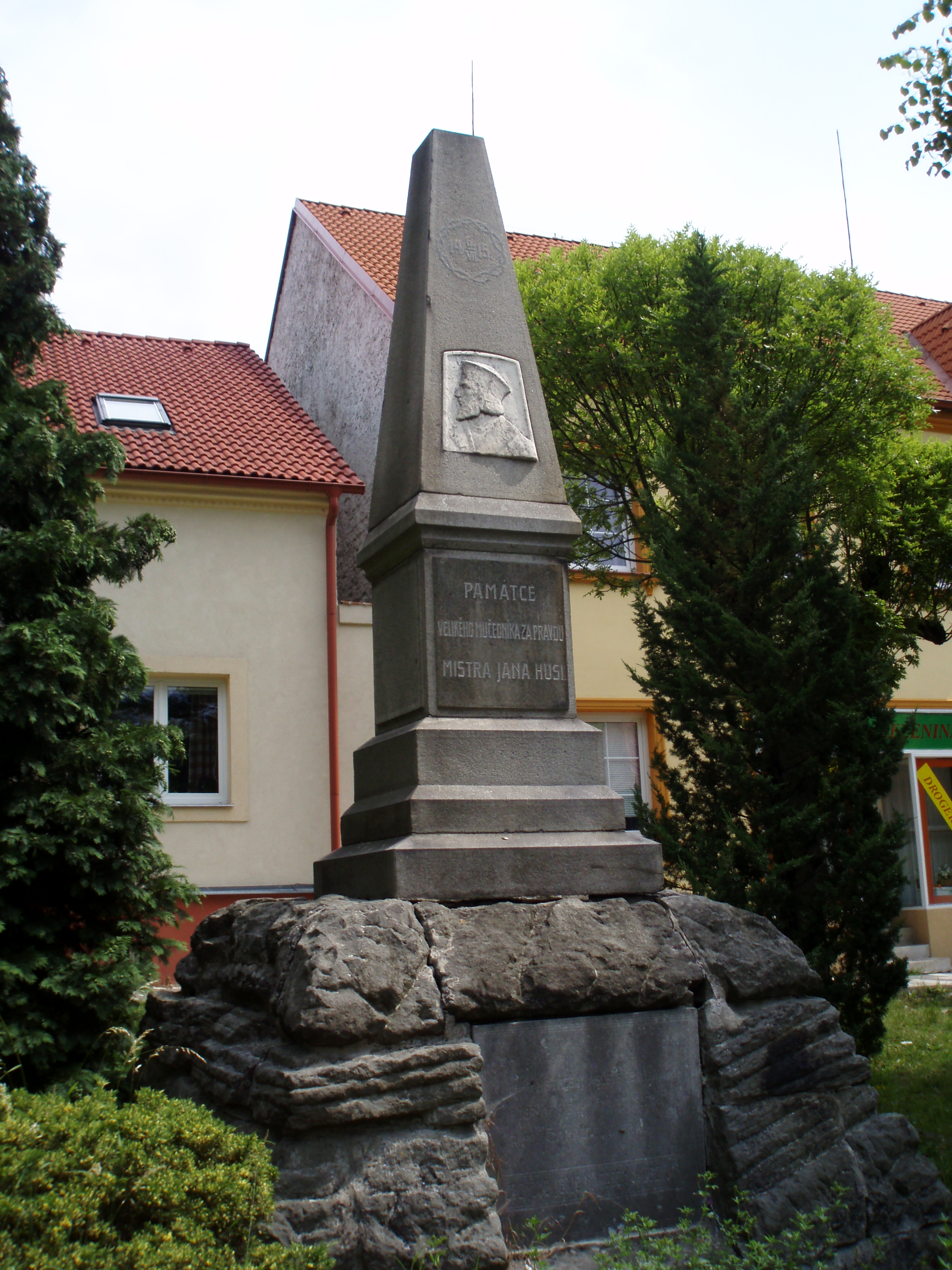 Jan Hus Monument in Sezemice, Pardubice District (CZ)